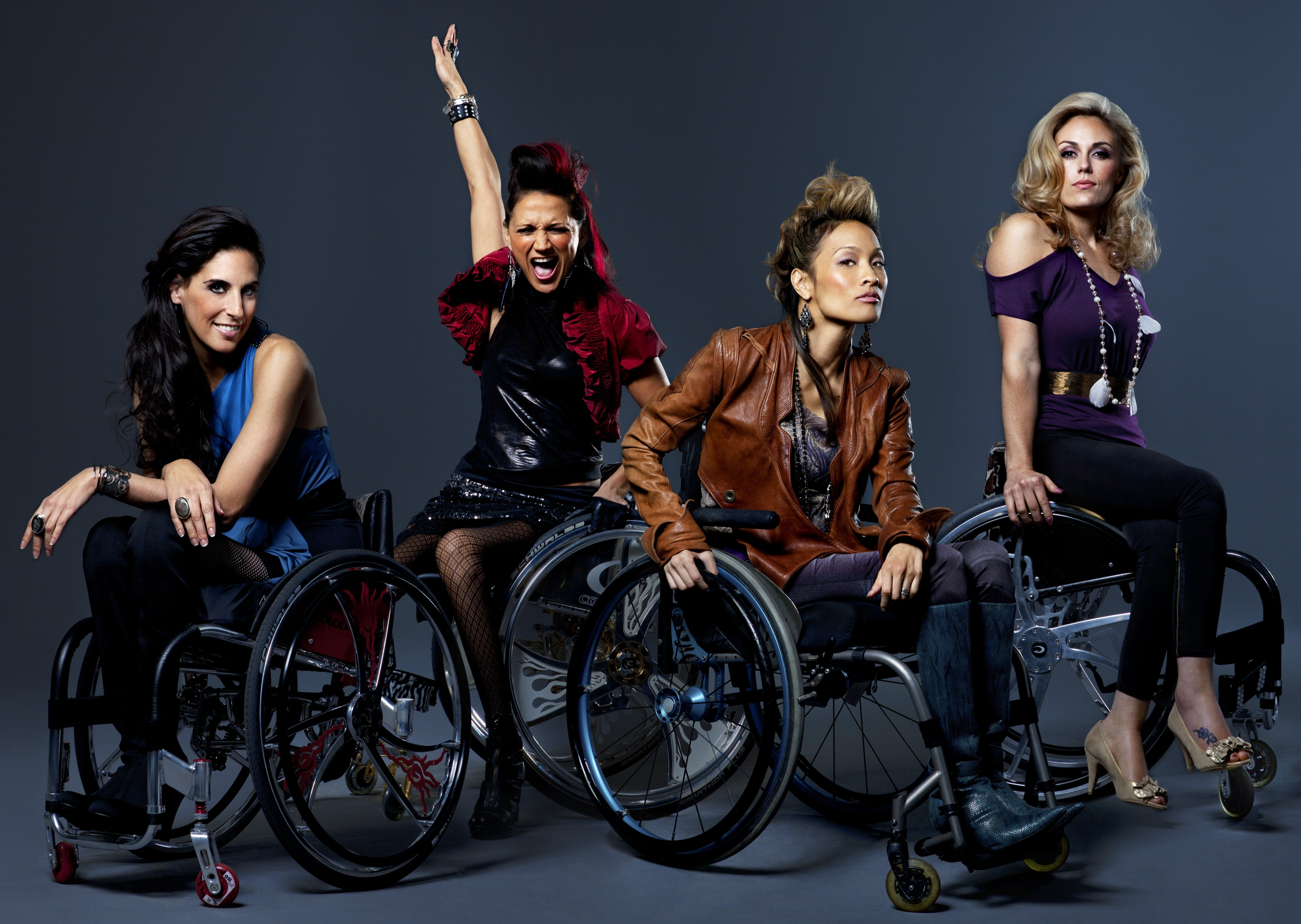 Press image of Push Girls.